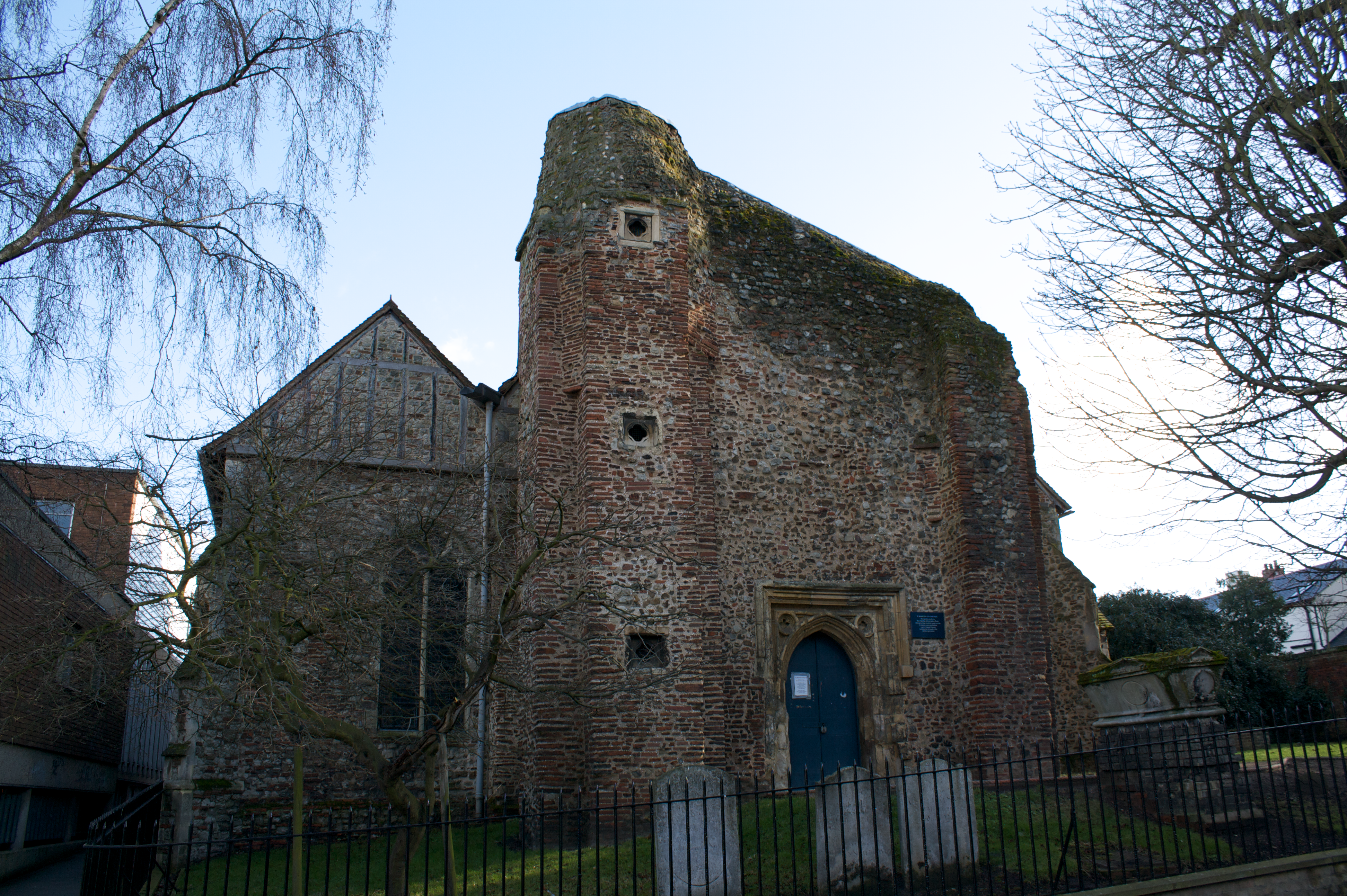 St. Martin's Church, located in the Dutch Quarters of Colchester, Essex. The Church dates from the Norman times, but the tower was destroyed during the English Civil War, and was never repaired. The Church is largely disused these days.